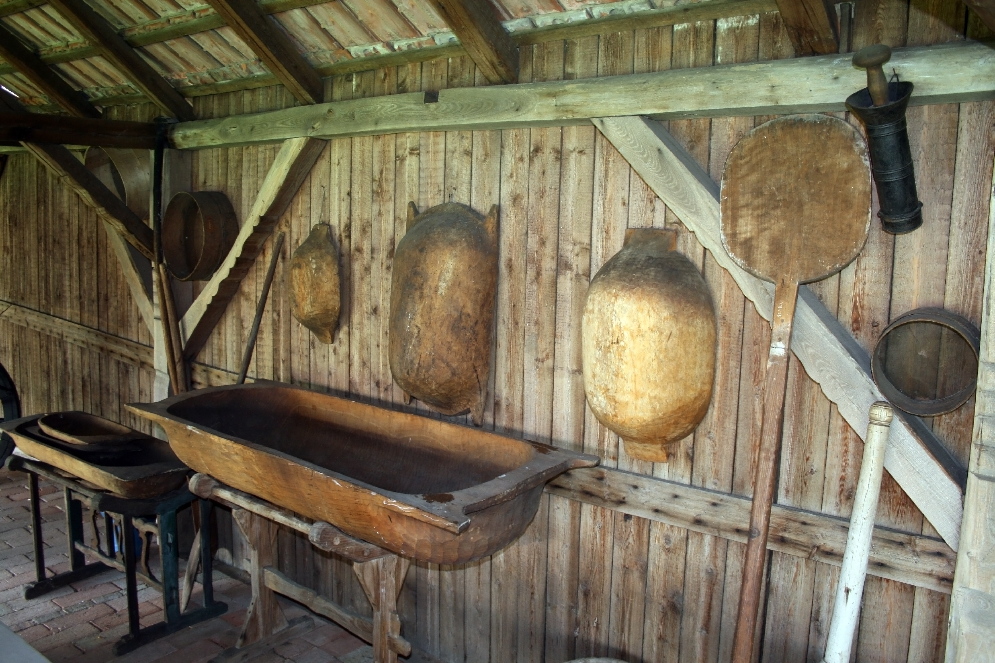 Troughs made of one piece of wood